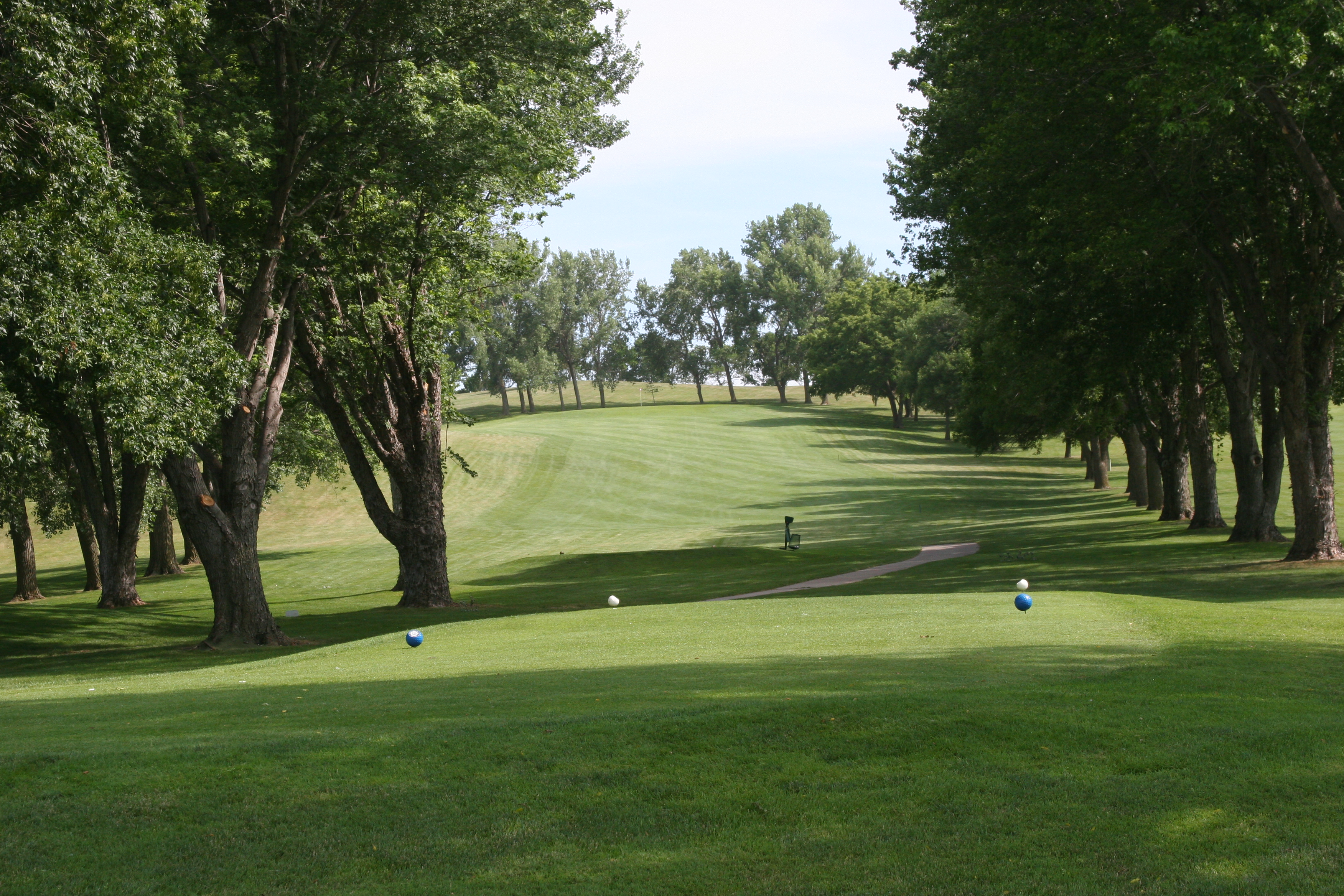 Beemer, Nebraska. 14th Hole of the Indian Trails Golf Course